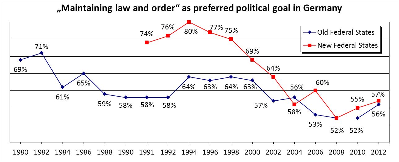 This is a line chart showing the proportion of respondents who listed the item "Maintaining law and order" as either their first or second choice of the four political priorities used to measure the post-structuralism index of Ronald Inglehart.